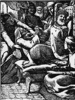 Illustration of the Parable of the Unjust Judge from the New Testament Gospel of Luke (Luke 18:1-9) by John Everett Millais for The Parables of Our Lord (1863)